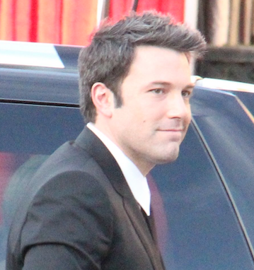 Ben Affleck at the 2014 SAG Awards